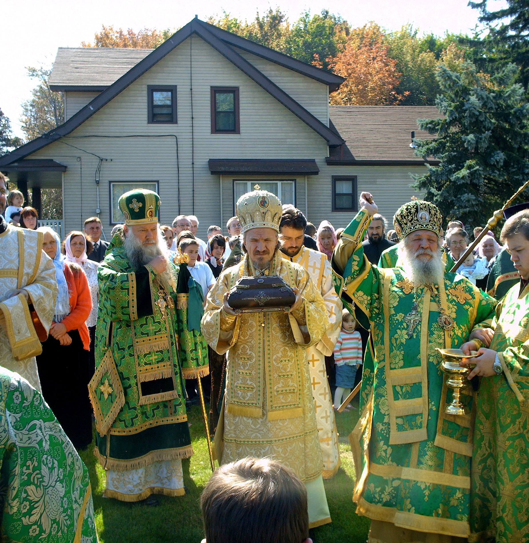 Bishop Peter (Loukianoff), Bishop Mitrophan (Kodić) with the relics of St. Sergius, and Metropolitan Laurus (Škurla)